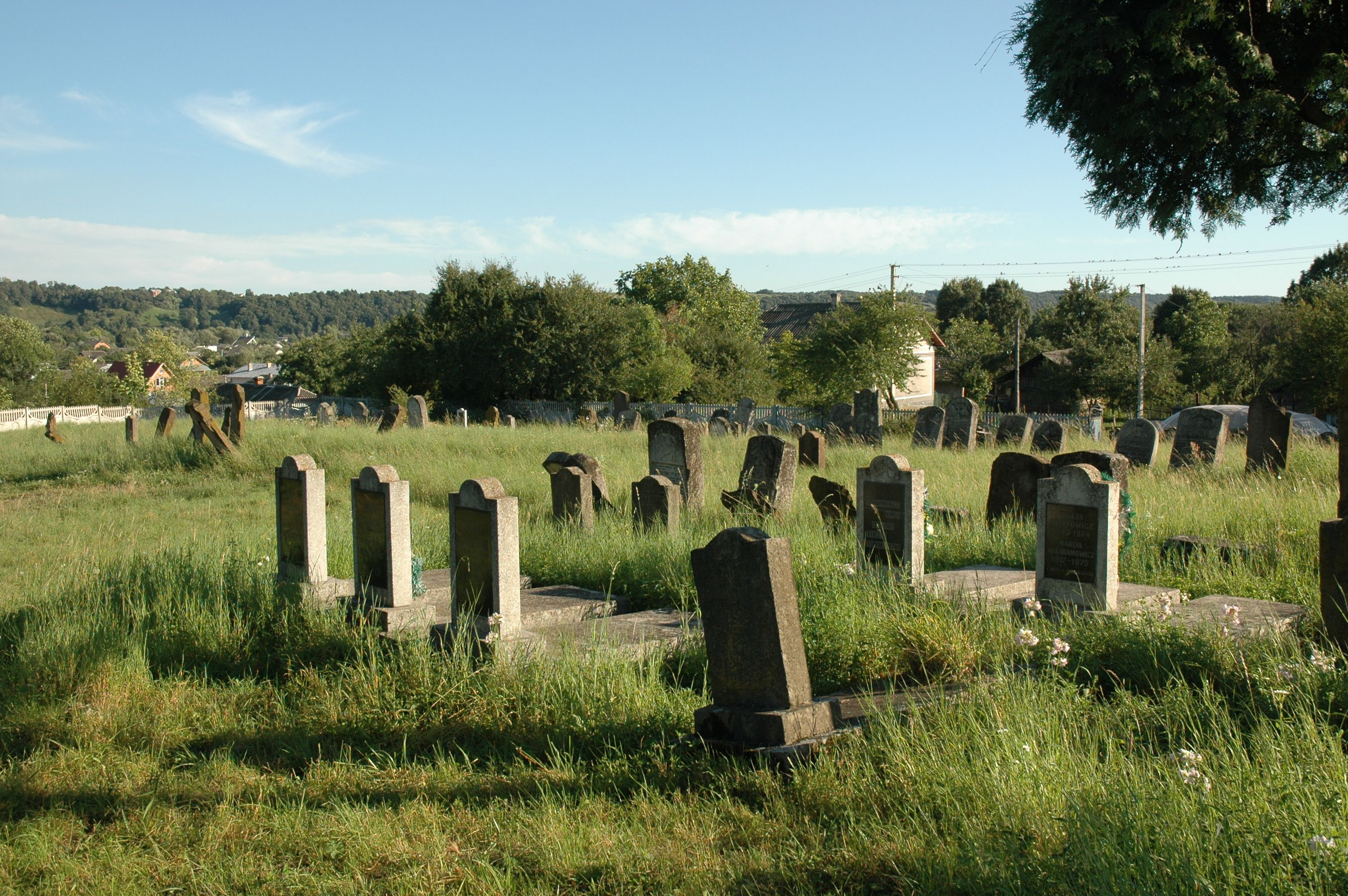 Karaite cemetery in Halych (Ivano-Frankivsk region, Ukraine)